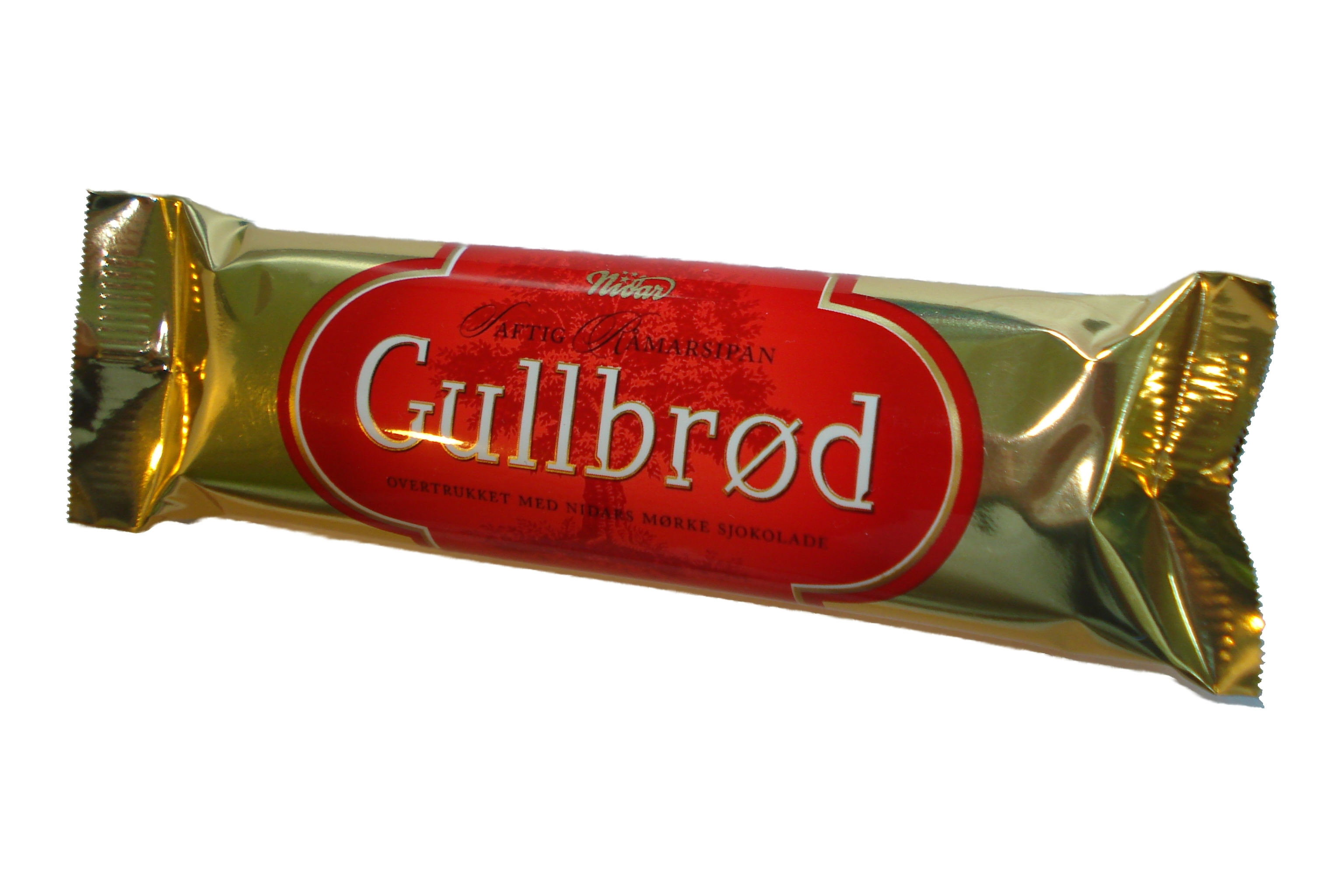 Image of a "Gullbroed"-chocolate by Nidar.